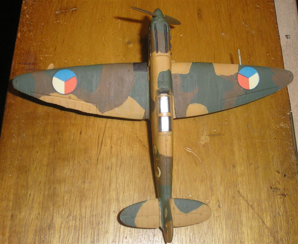 Of an Avia B.35. Unless someone out there knows better.